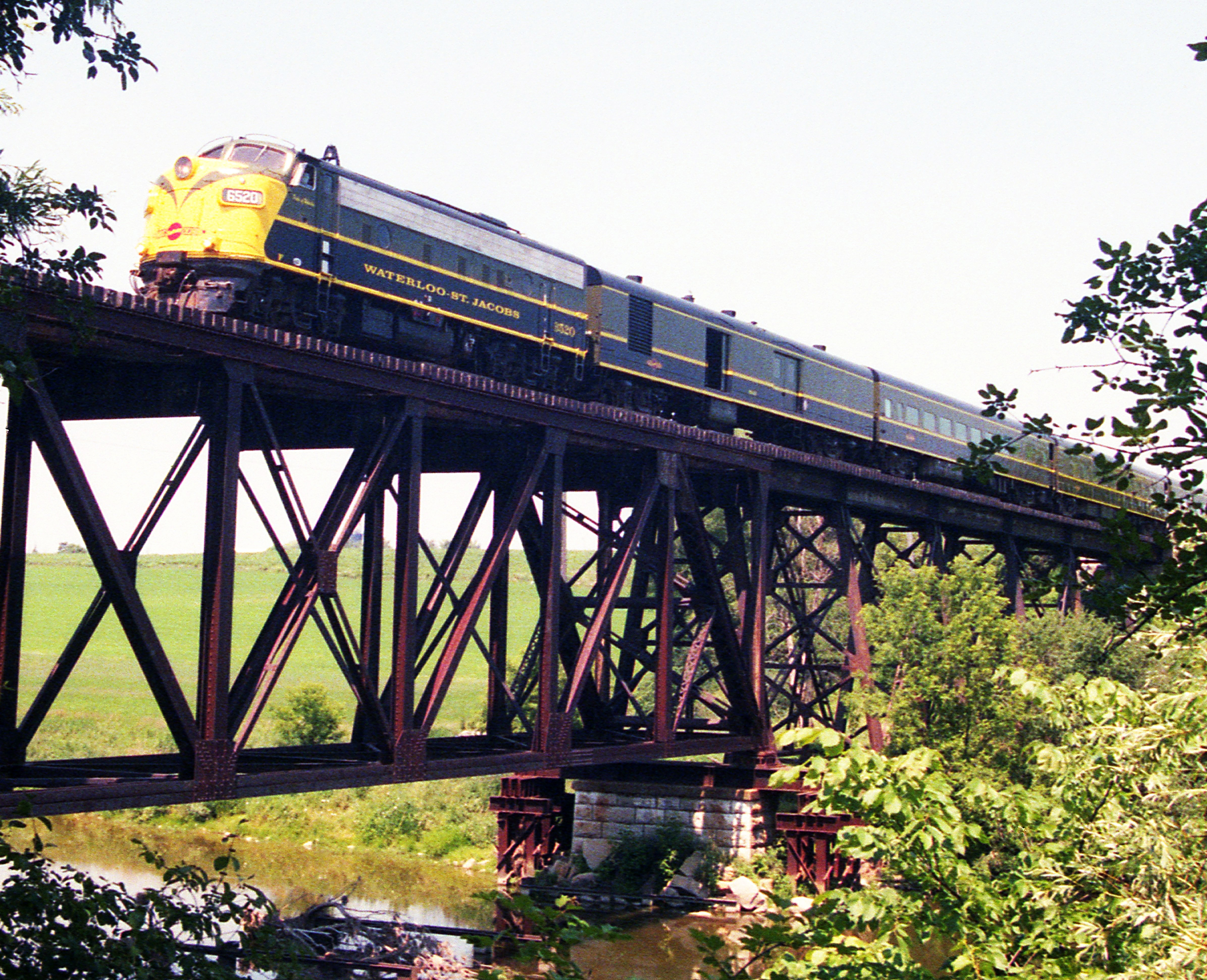 Waterloo-St. Jacobs Railway opens commercially for the first time, July 12, 1997